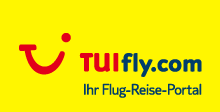 Tuifly website logo